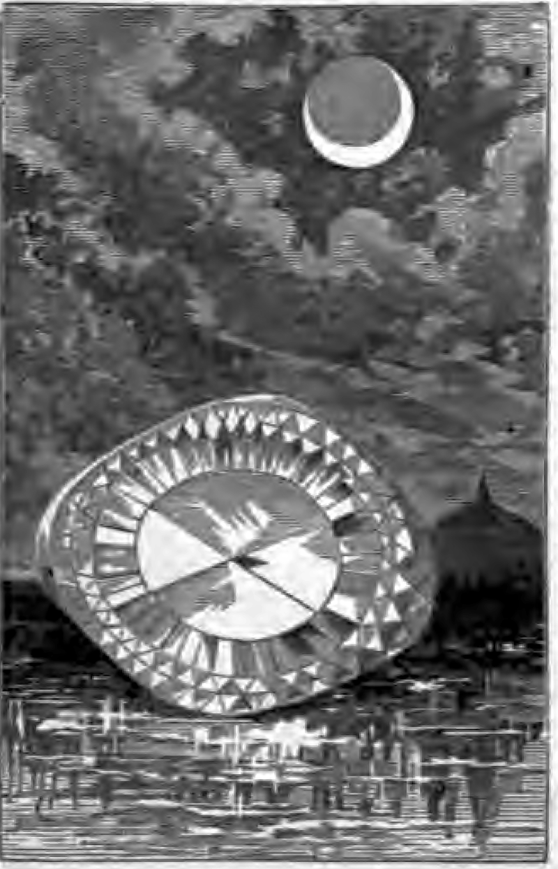 Illustrations from the book, The Moonstone, by Wilkie Collins